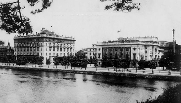 Tokyo Kaikan (left) and mperial Garden Theater at its completion.